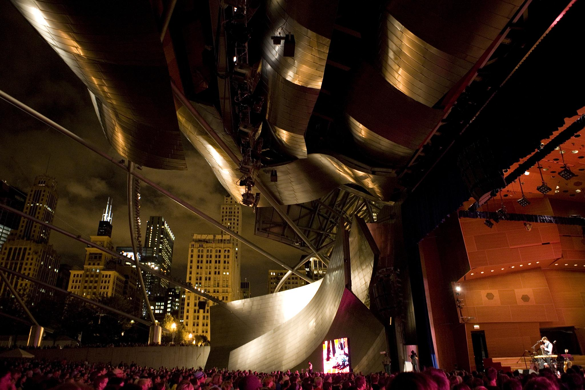 Andrew Bird and co perform at Millennium Park's Pritzker Pavilion in Chicago on September 3, 2008.